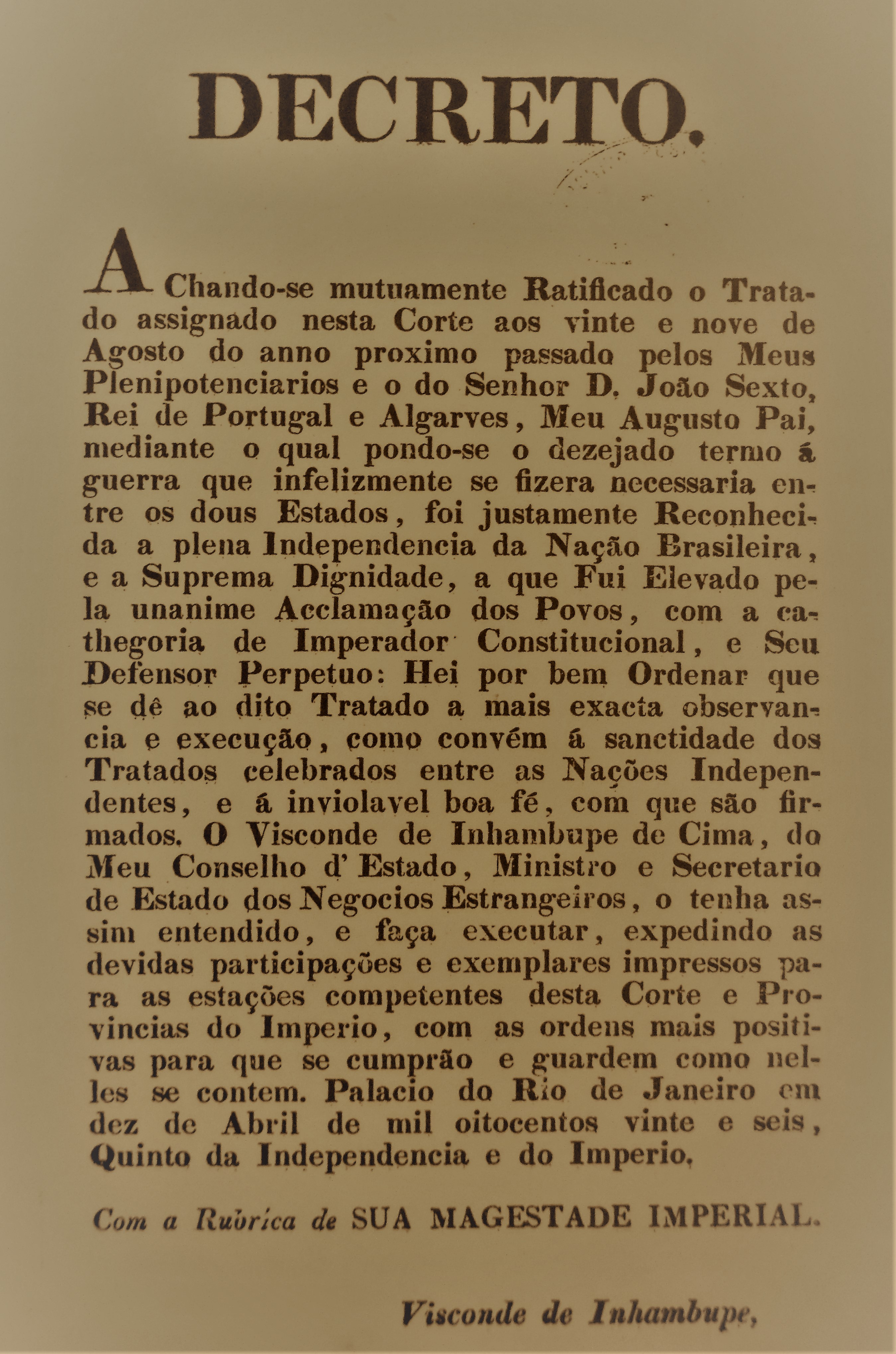 Brazil in 1826.